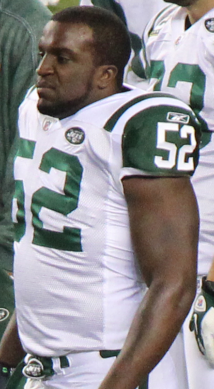 David Harris, a player on the National Football League.